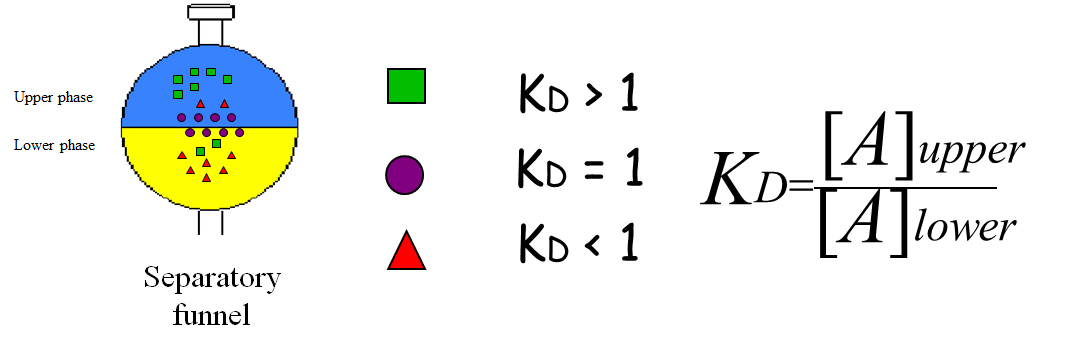 Partitioning coefficient (Kd) of each solute between two solvents